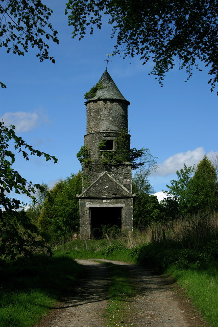 Darleith Dovecot View of the Dovecot at Darleith Estate